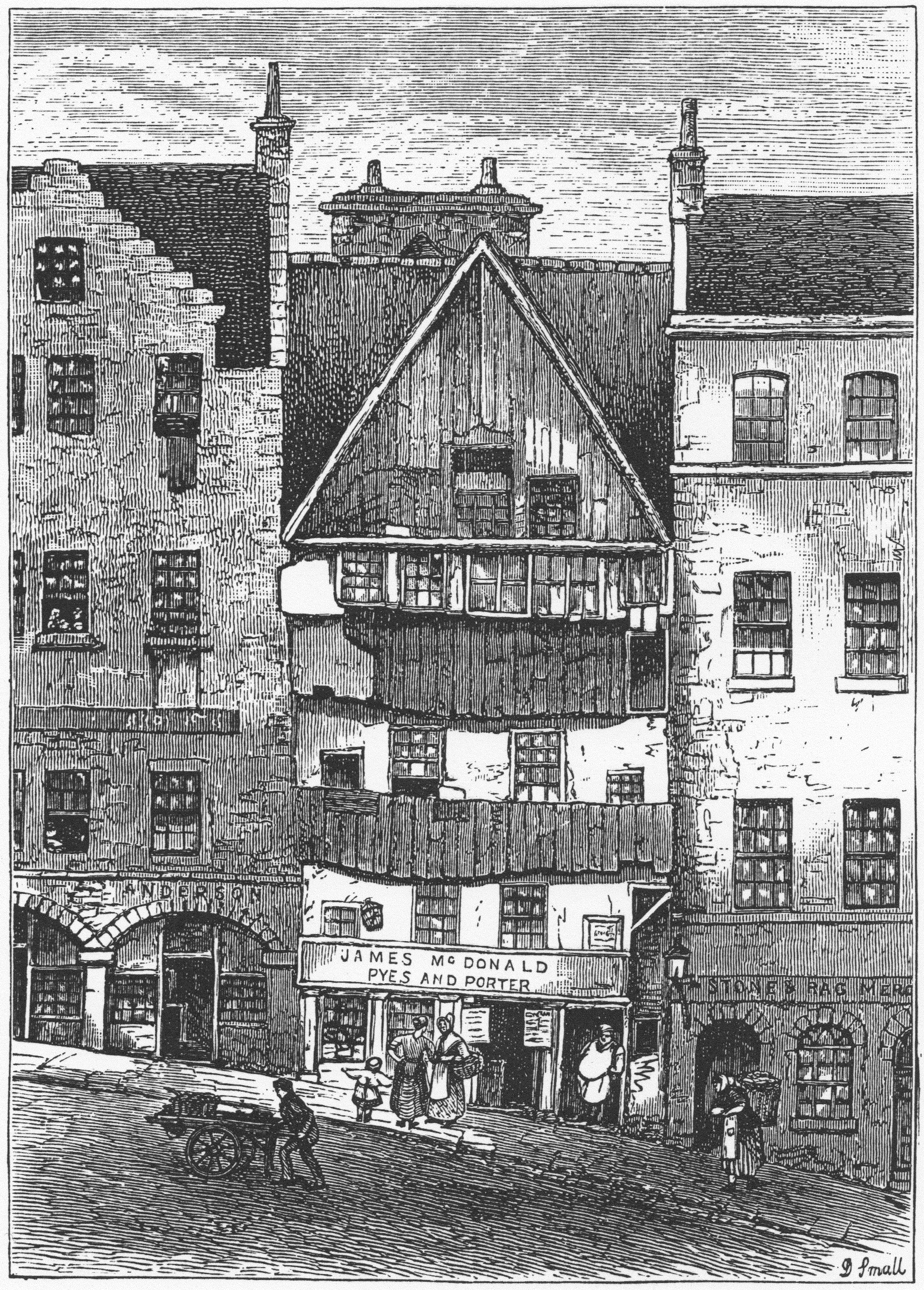 Mahogany Land, West Bow, from James Grant's Old and New Edinburgh, 1880. Among the oldest edifices in this part of the street was one which bore the singular name of the "Mahogany Land," having an outer stair protected by a screen of wood. There was no date to record its erection, but its ceilings were curiously adorned by paintings precisely similar to those which were found in the Palace of Mary of Guise in the Castle Hill; and no record remained of its generation of inmates, save that...it bore the iron cross of the Temple, and also the legend—, which, from being a simple moral apothphegm, and not Biblical, was supposed to be anterior to the Reformation— He.yt.tholis.overcommis. (i.e.,"He that bears overcomes.")